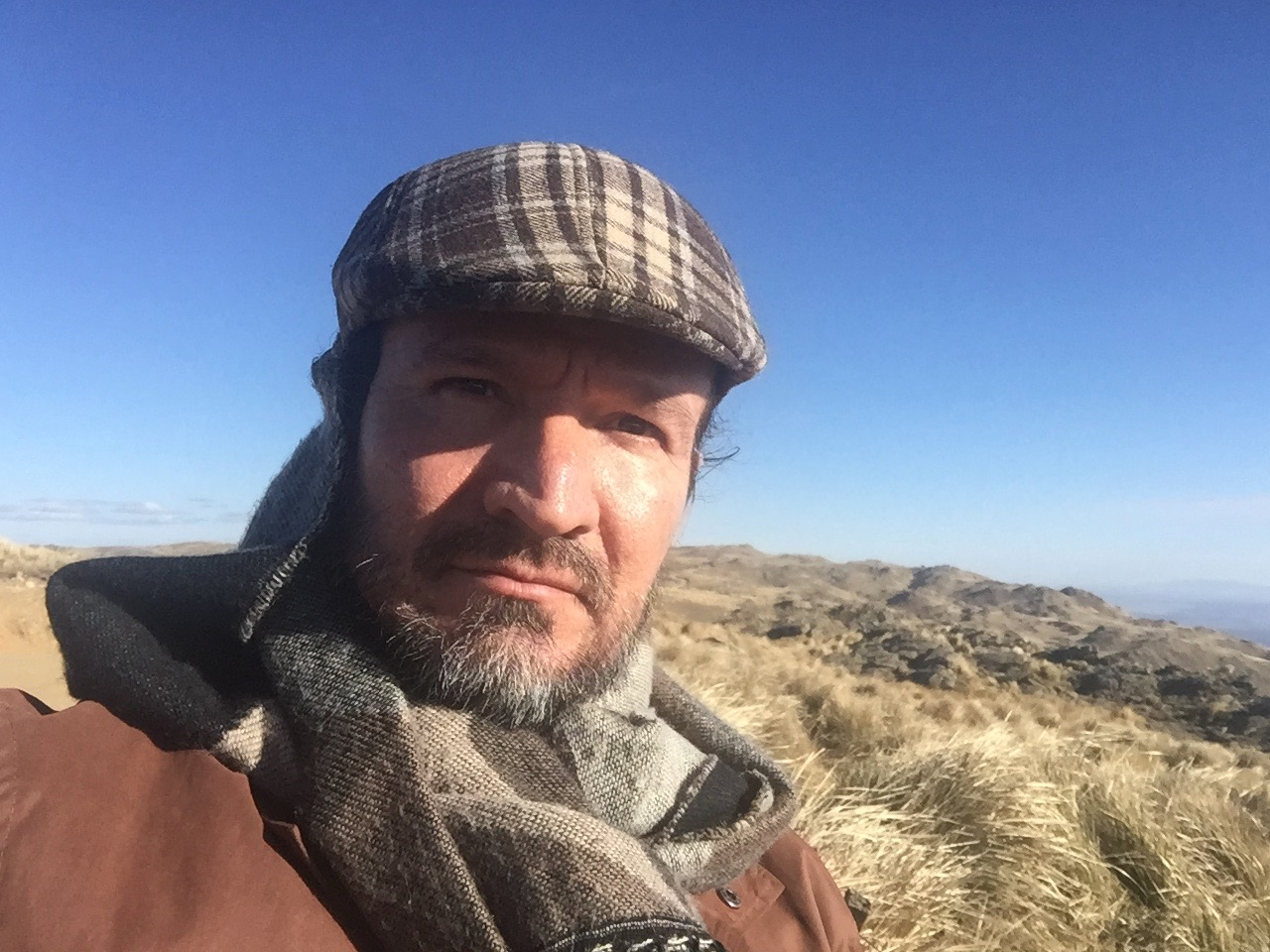 en las alturas en Merlo, Argentina